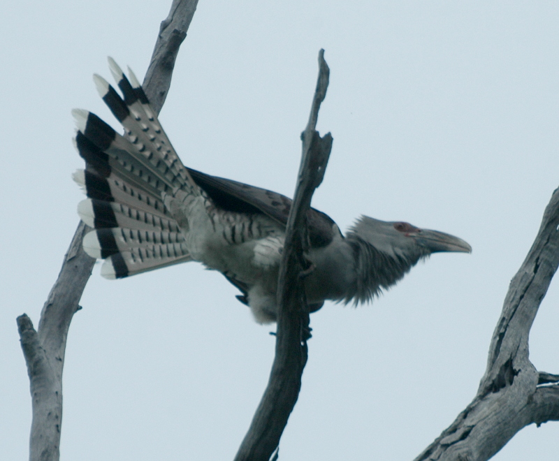 Channel-billed Cuckoo Scythrops novaehollandiae Kobble Creek, SE Queensland, Australia